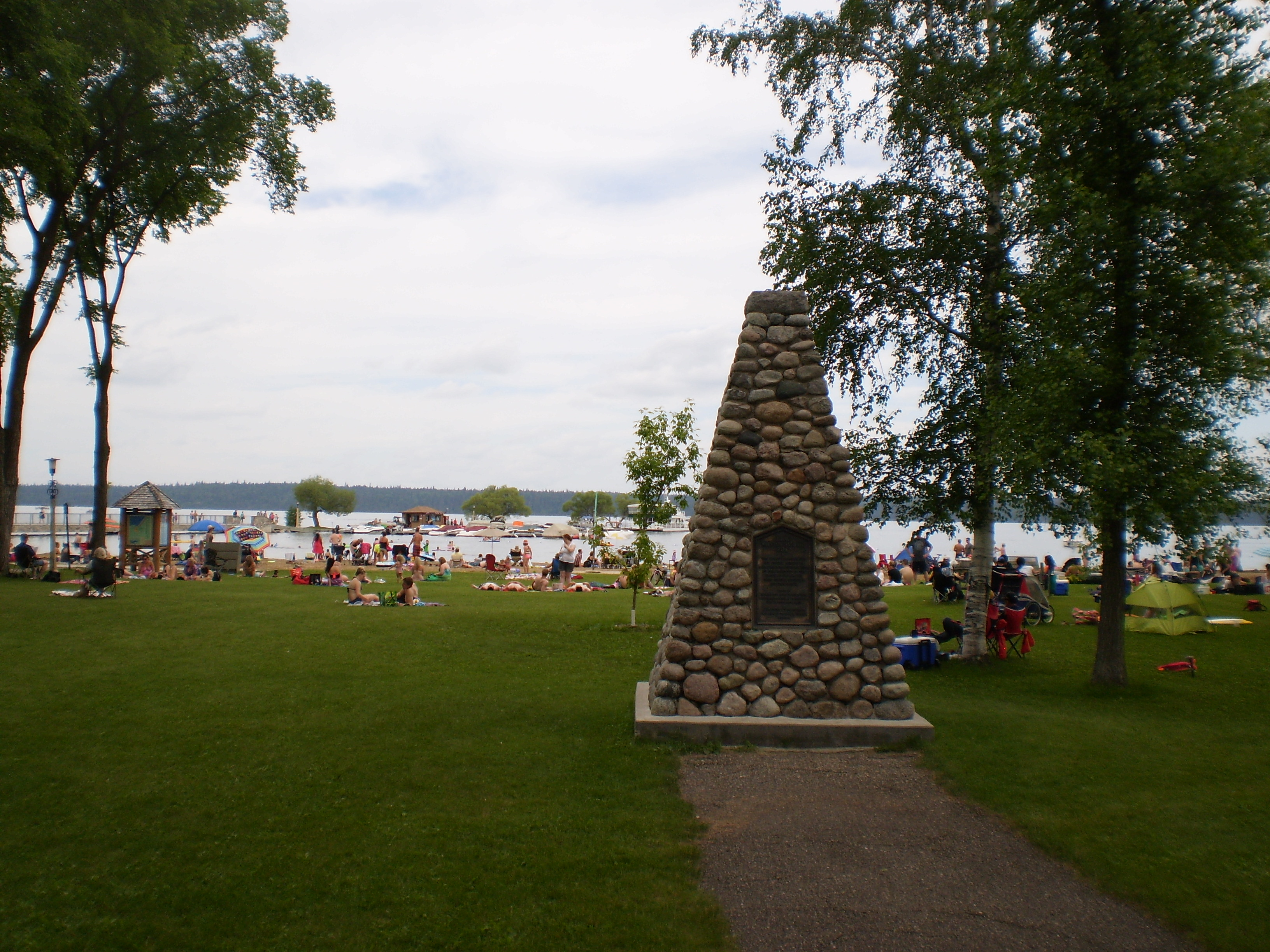 Riding Mountain National Park Monument